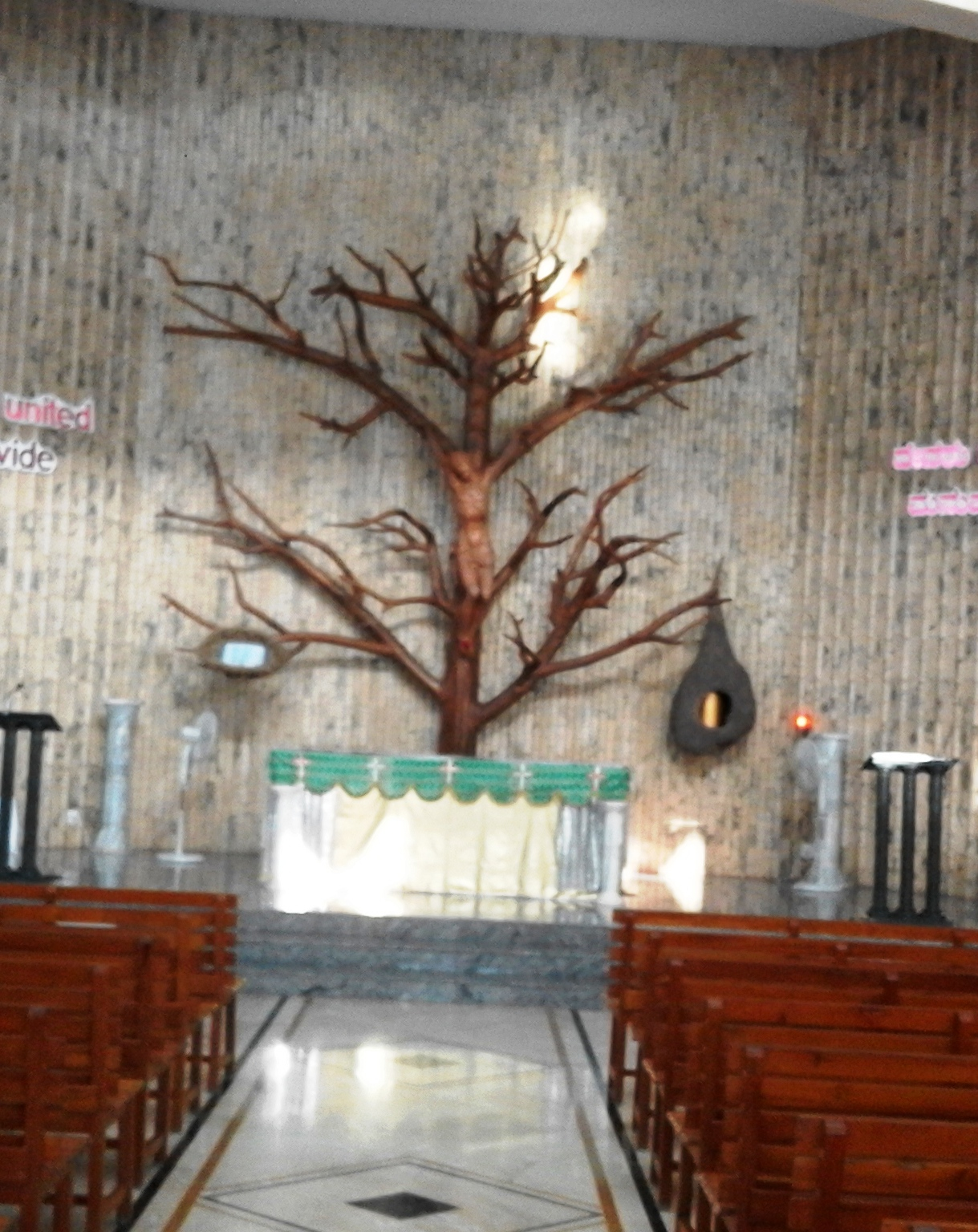 Infant Jesus Church, Mysore, India.